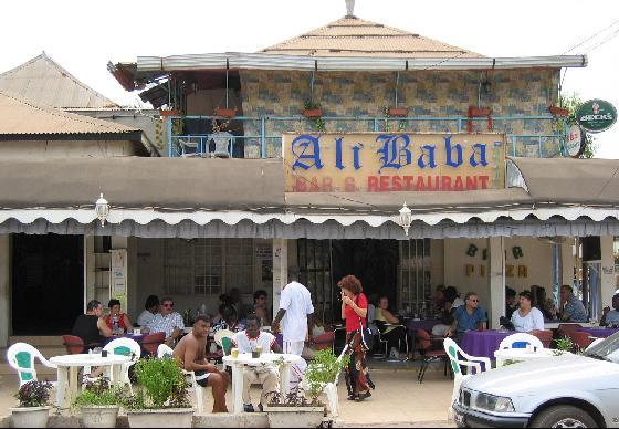 South Kololi, Senegambia area